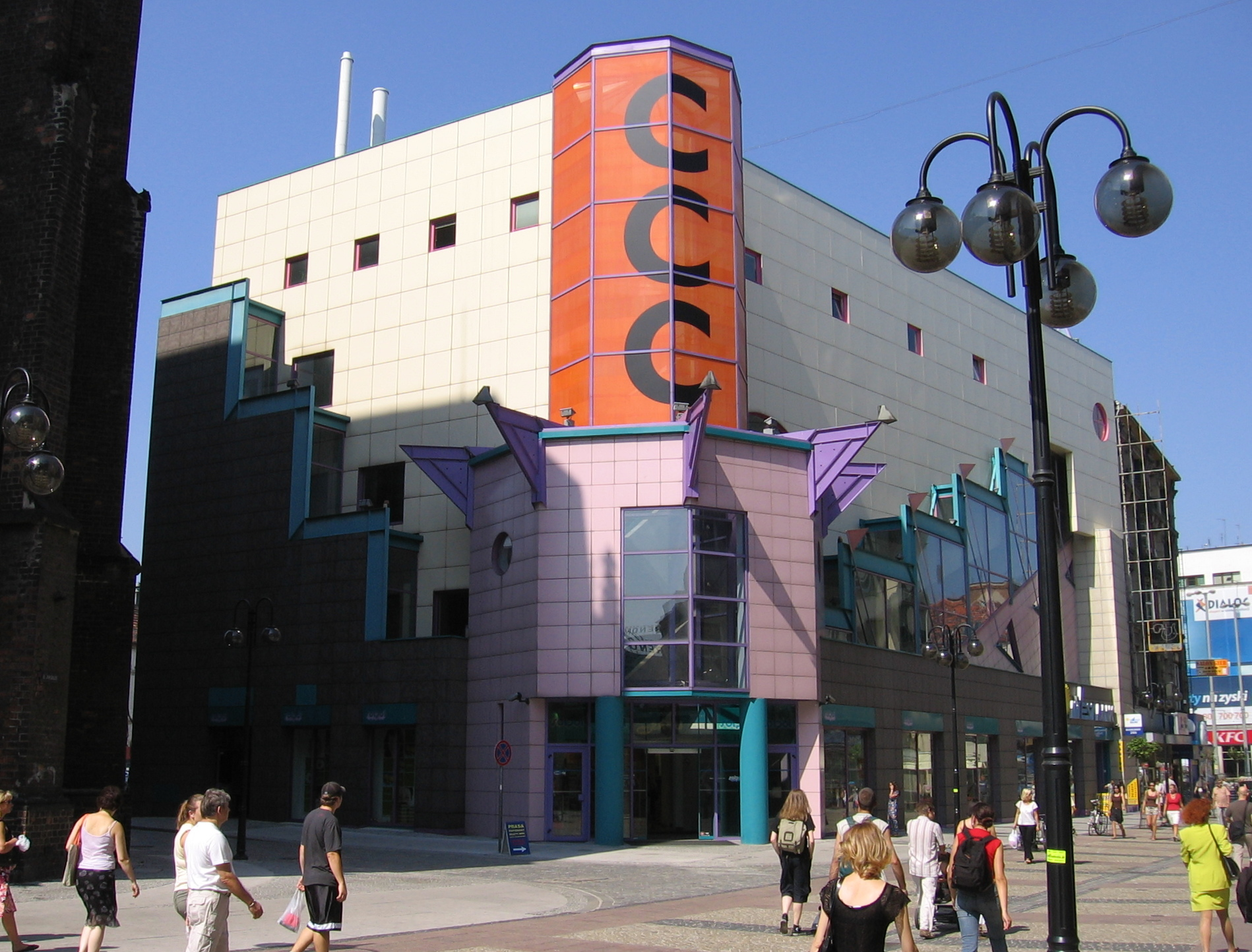 Poland Wroclaw, Swidnicka Street "SOLPOL" post-modern building - department store, by architect Wojciech Jarząbek